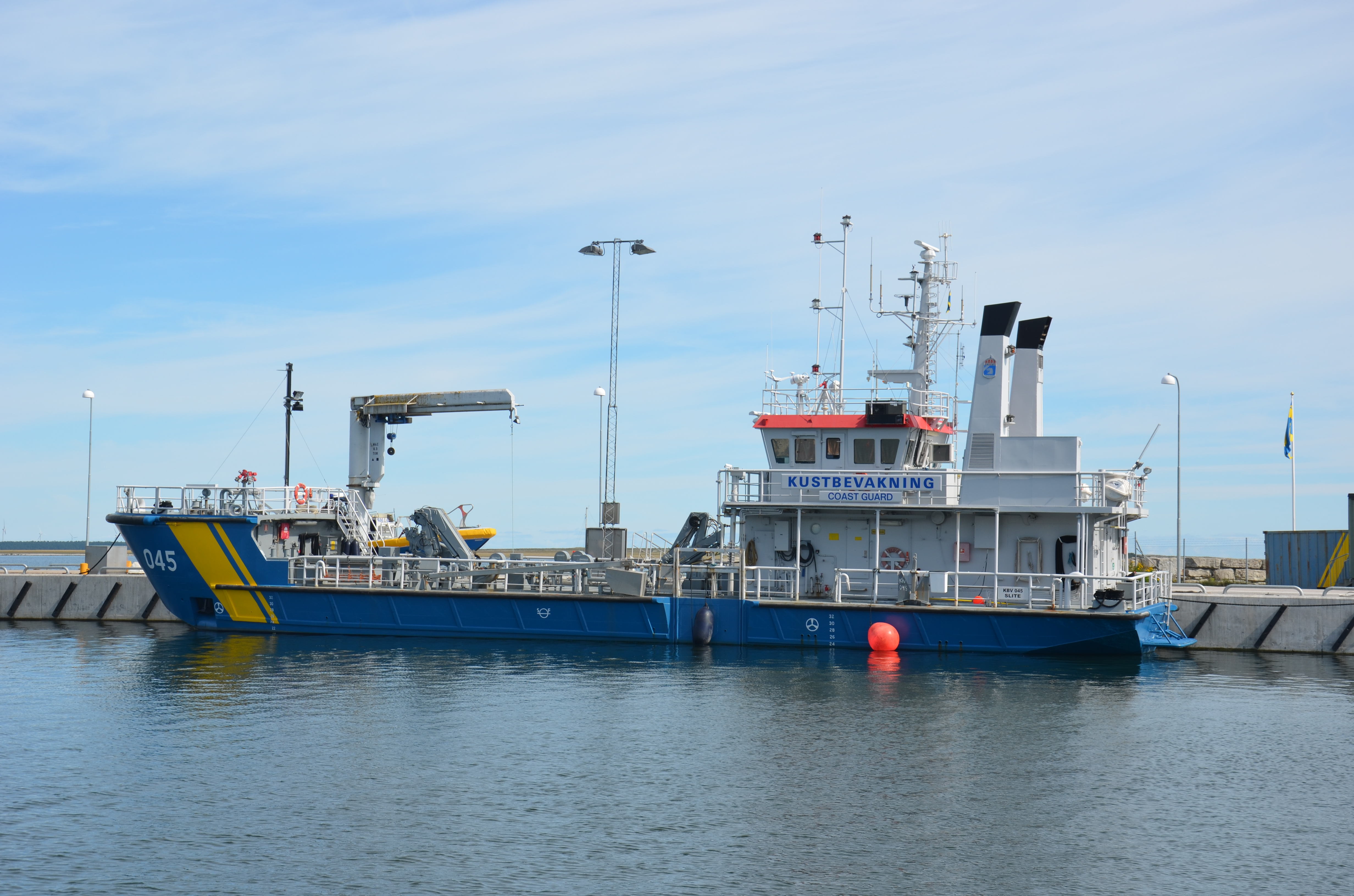 Swedish Coast guard environmental protection vessel KBV 45 i Slite harbour